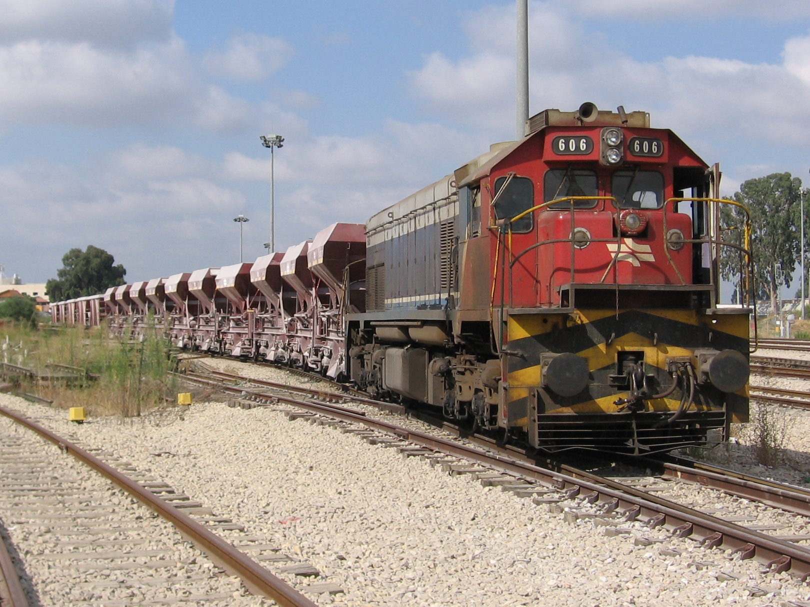 Powerful EMD-G26 Israel Railways locomotive pulling a ballast train south of Lod station